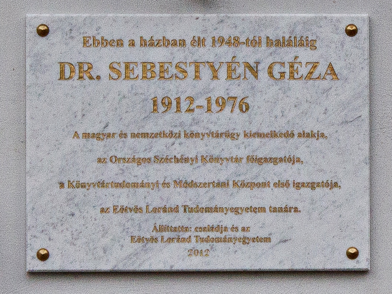 Plaque of Géza Sebestyén (1912–1976), Director of National Széchényi Library, Hungary